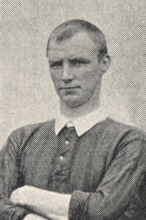 Jack Dewhurst while with Brentford FC in 1905/06